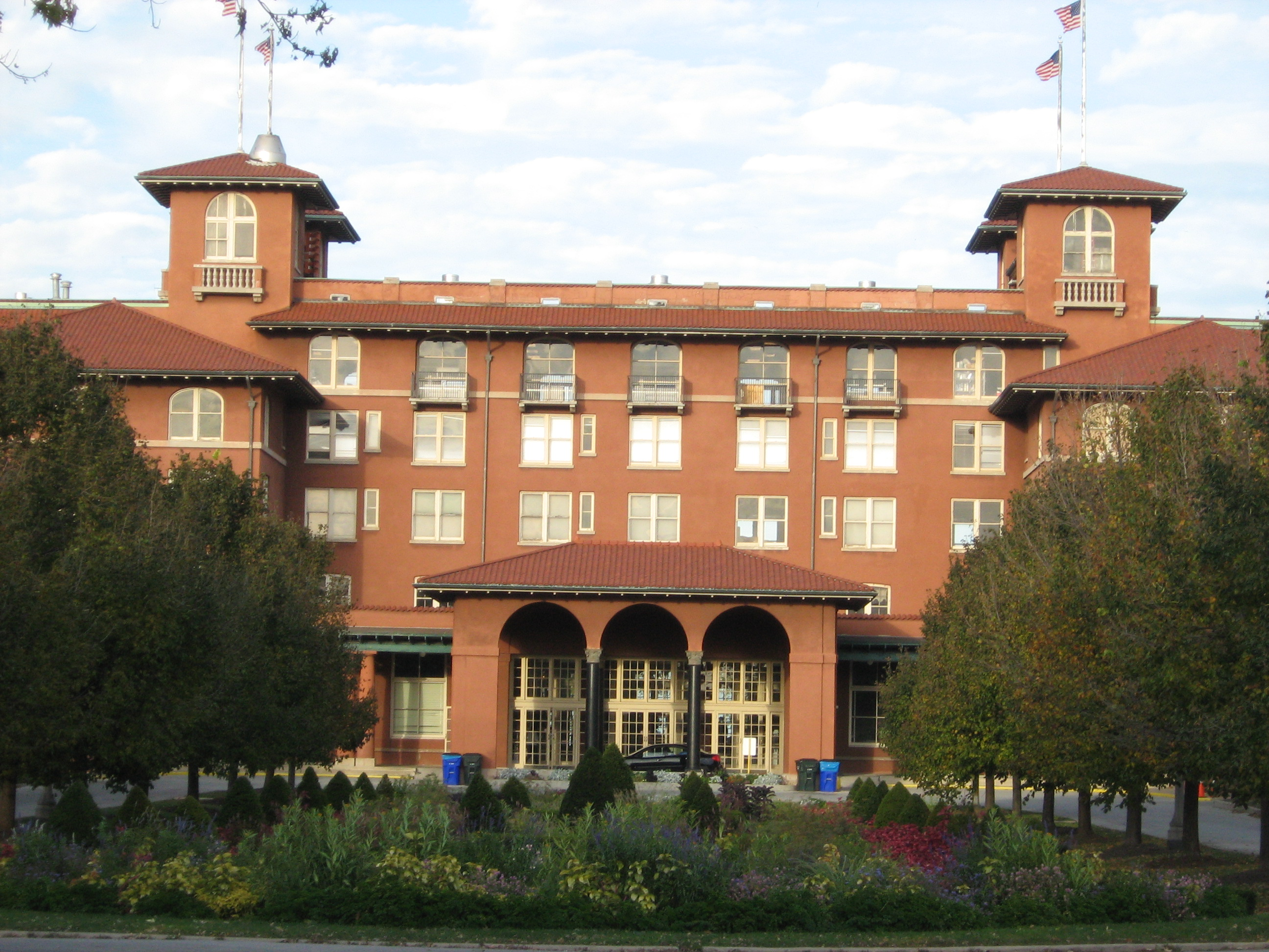 7059 S South Shore Dr Chicago, IL 60649 (773) 256-0149